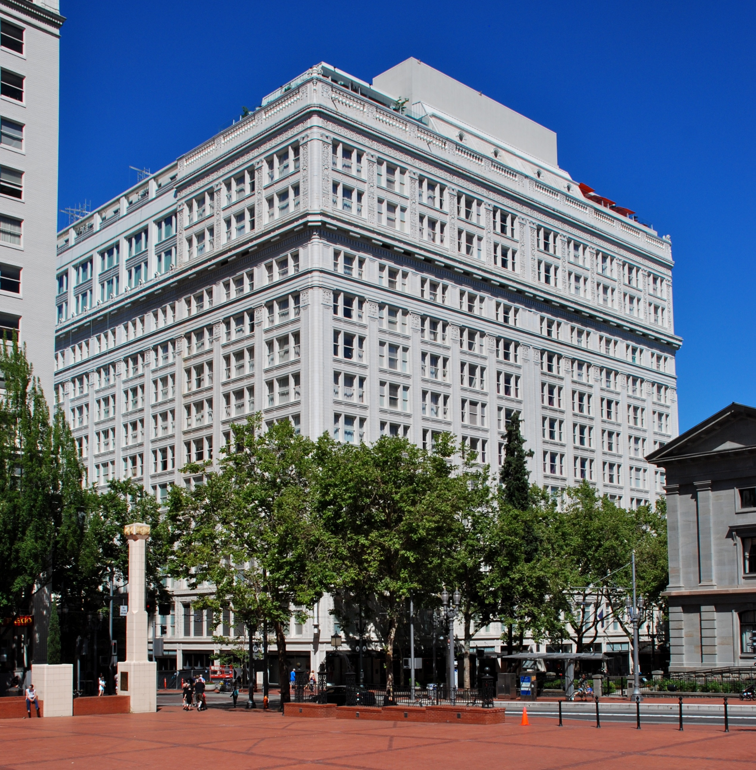 The historic Meier & Frank Building, in downtown Portland, Oregon, viewed from across Pioneer Courthouse Square.